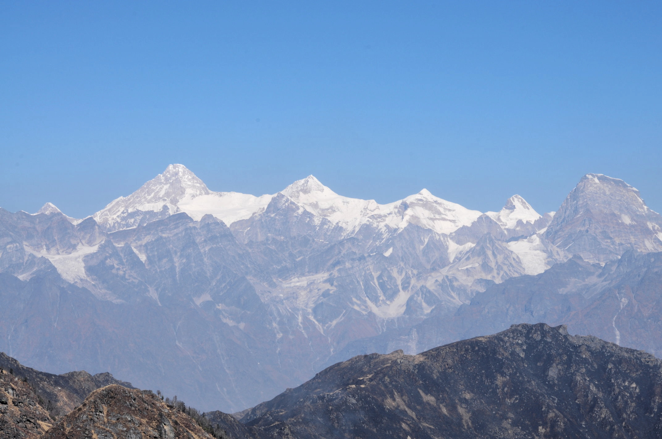 Kamet with Mandir Parbat, Deoban, Nilgiri Parbat